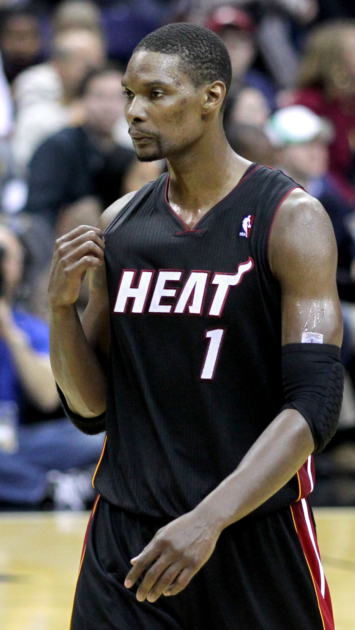 Chris Bosh: Wizards v/s Heat 03/30/11